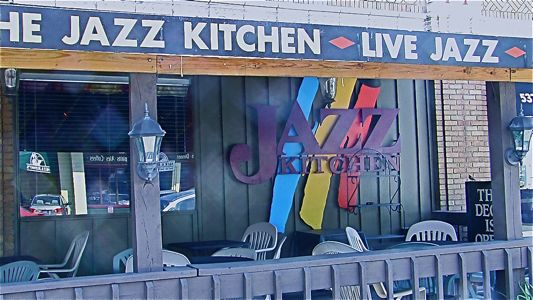 An image of the Jazz Kitchen in Indianapolis, Indiana